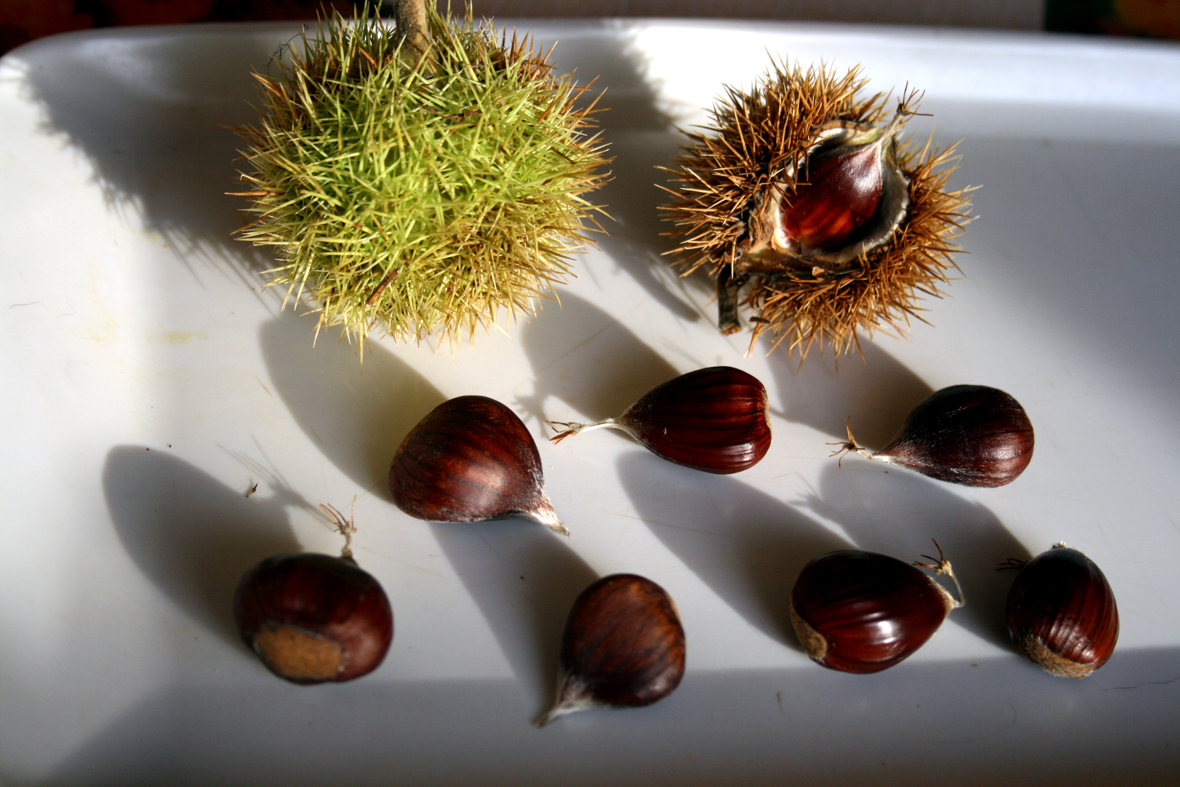 Sweet Chestnut Castanea sativa, autunm 2008, Czech Republic